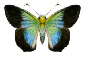 Allora doleschallii (peacock awl butterfly) Phylum ARTHROPODA Class HEXAPODA Order Lepidoptera Family Hesperiidae